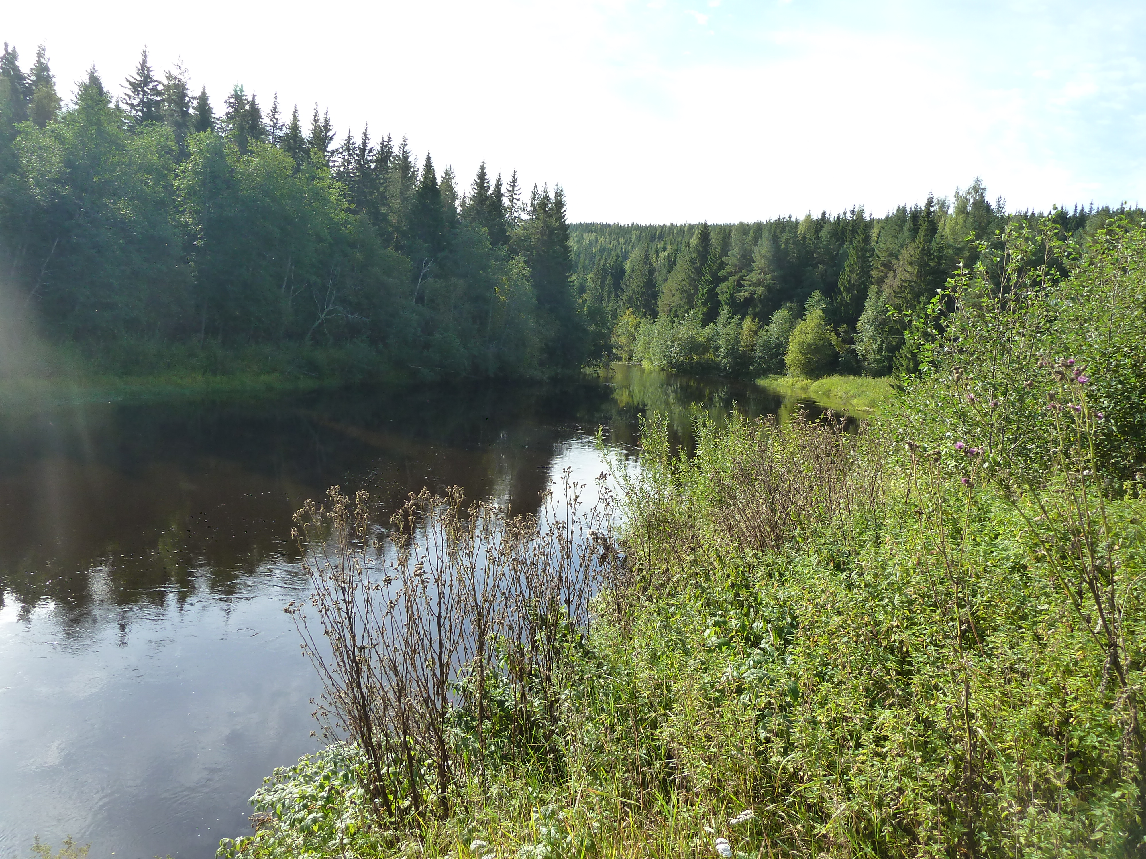 Galastan at Gala, Örnsköldsvik, Sweden.